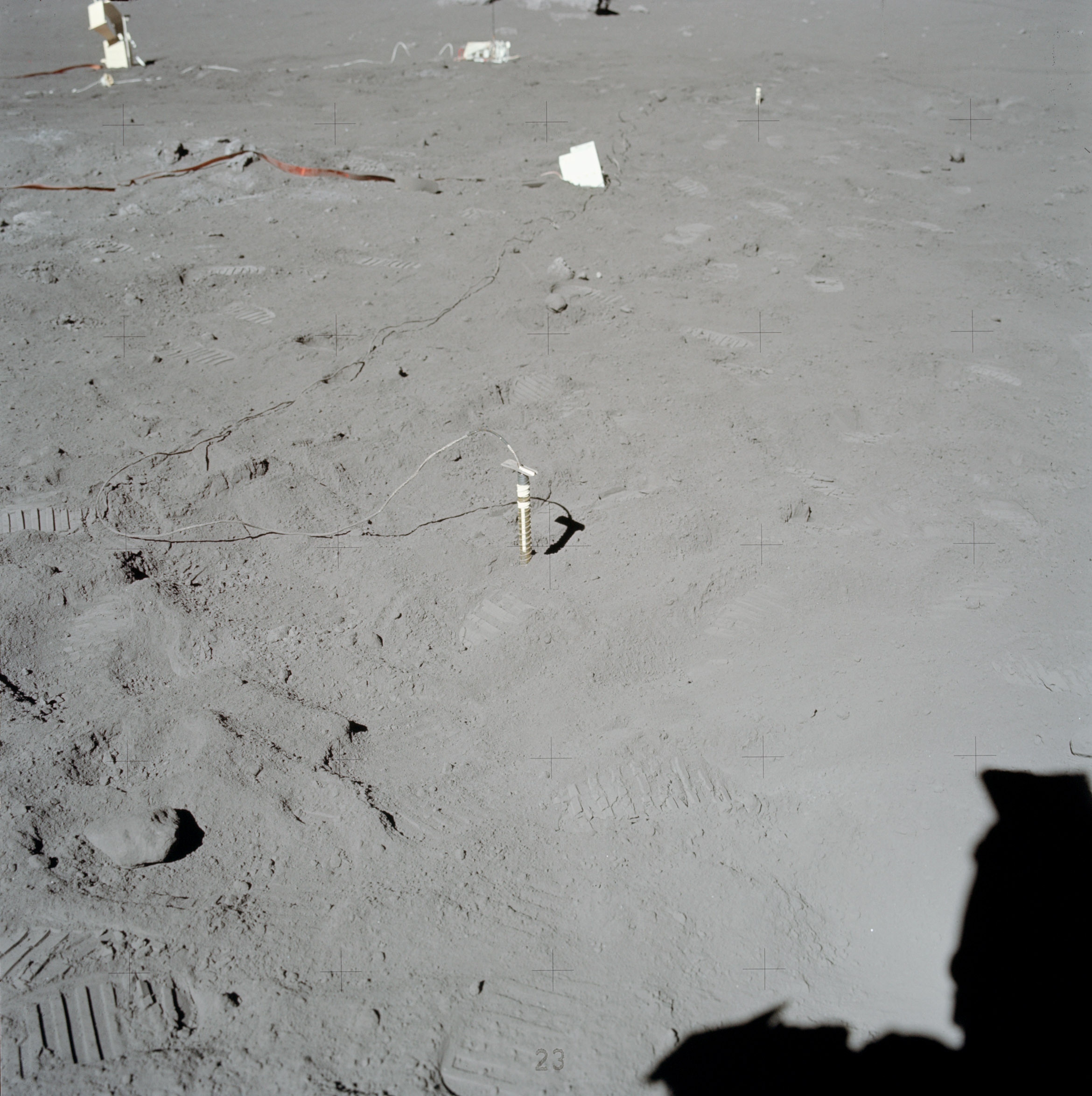 Apollo 17's Heat Flow Experiment.